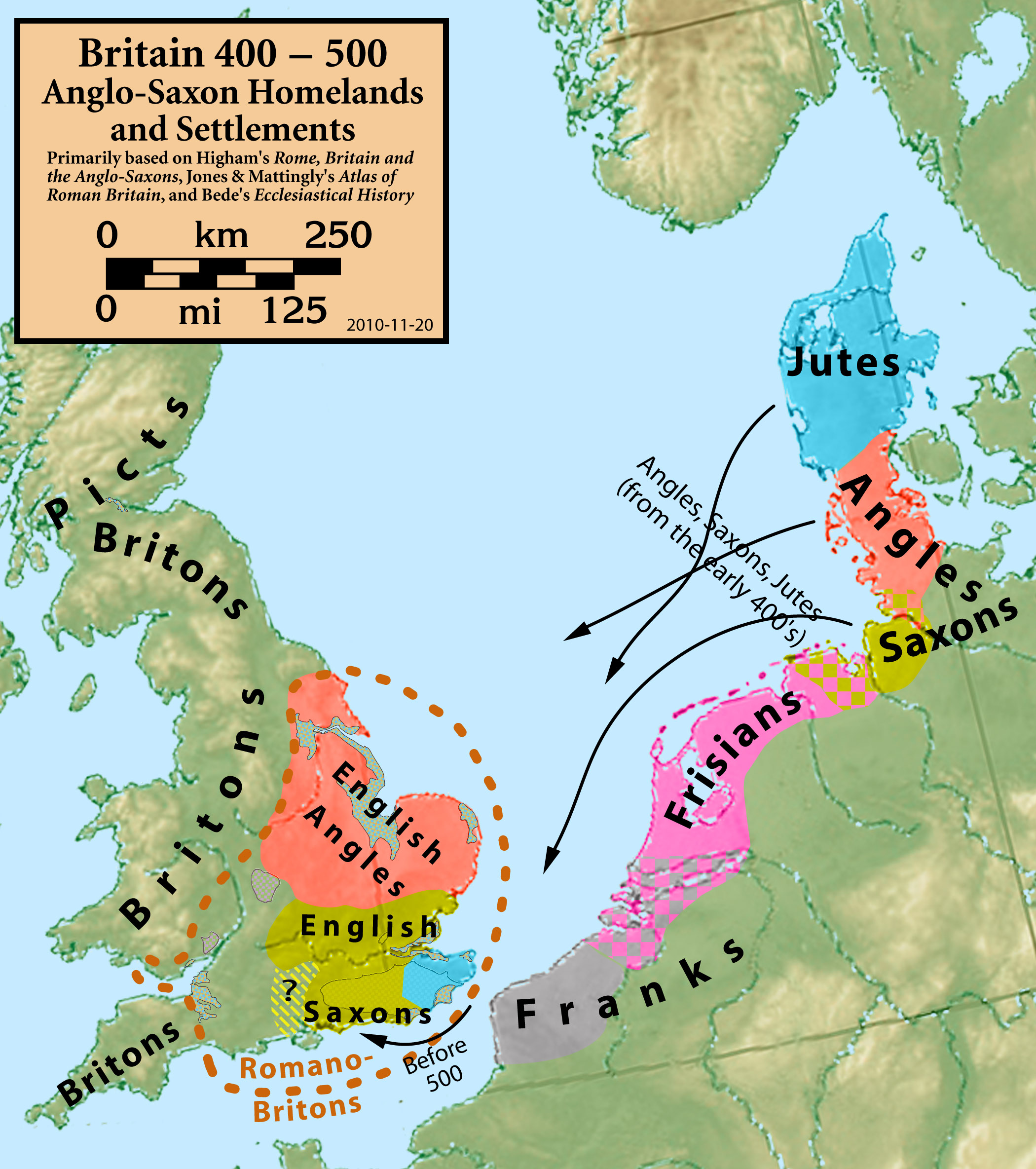 Britain 400–500: Anglo-Saxon Homelands and Settlements